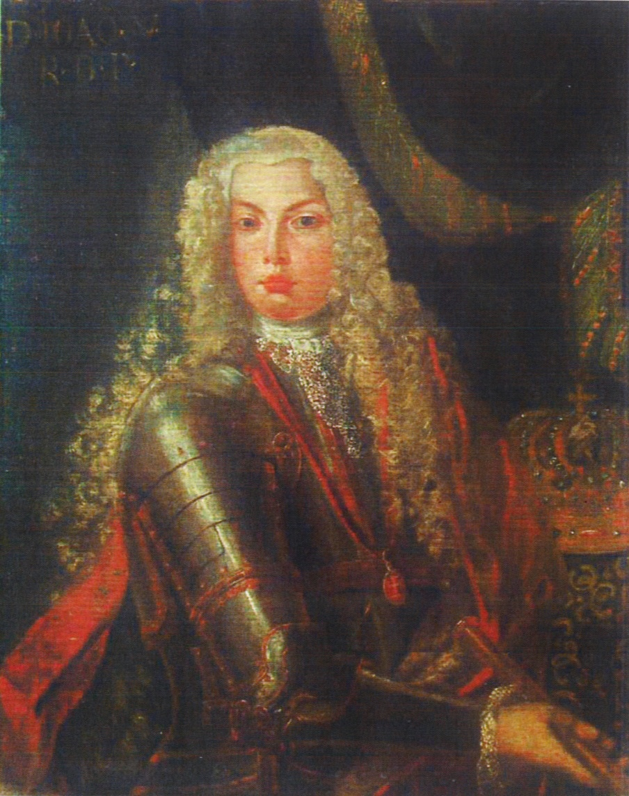 Painting of King John V of Portugal (1689-1750), in the Royal Gallery of the Caldas da Rainha Hospital, painted c. 1708 by António Machado Sapeiro.